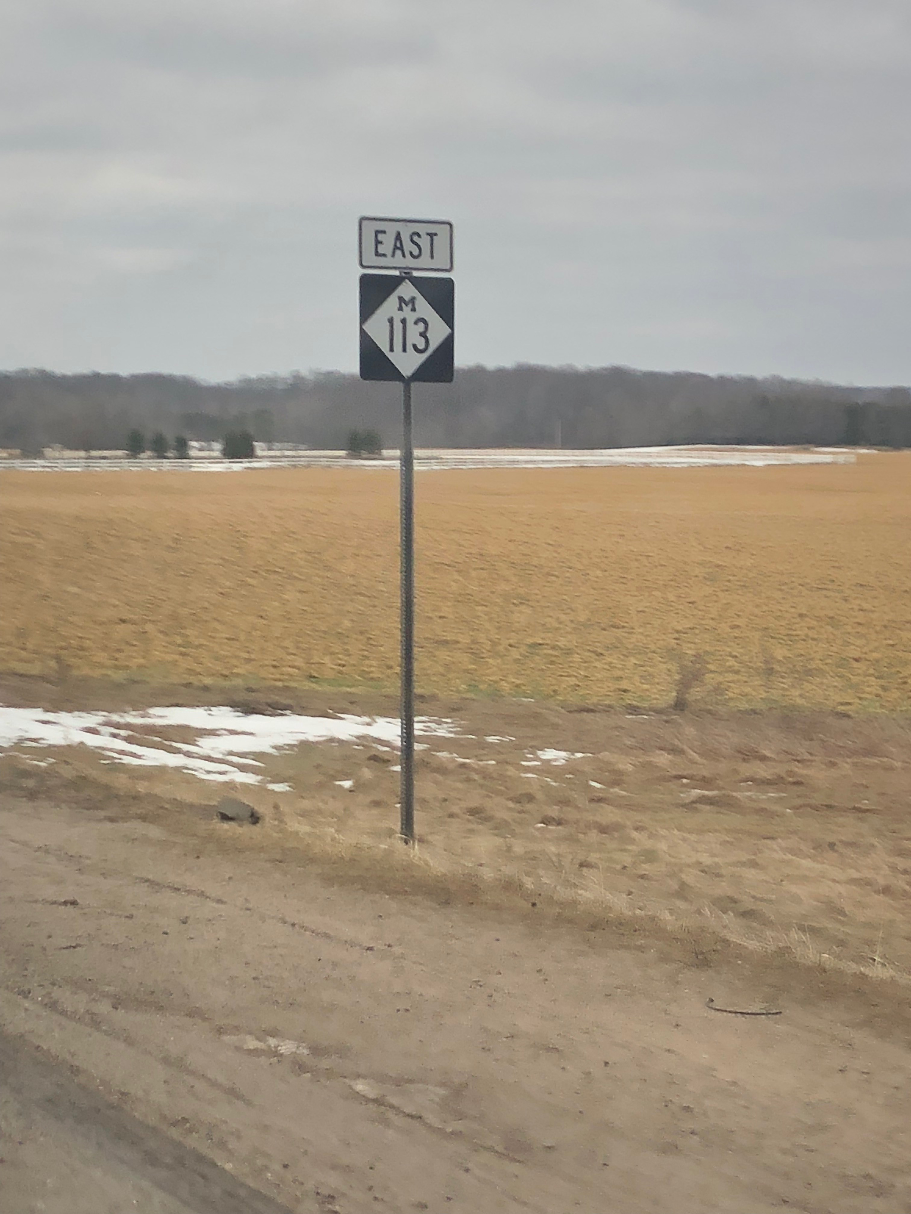 Eastern terminus sign of M-113 in Hannah, Michigan